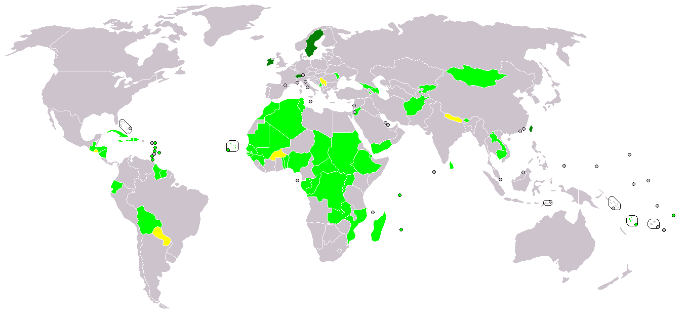 dark green - sponsors; light green - participants; yellow - applicants